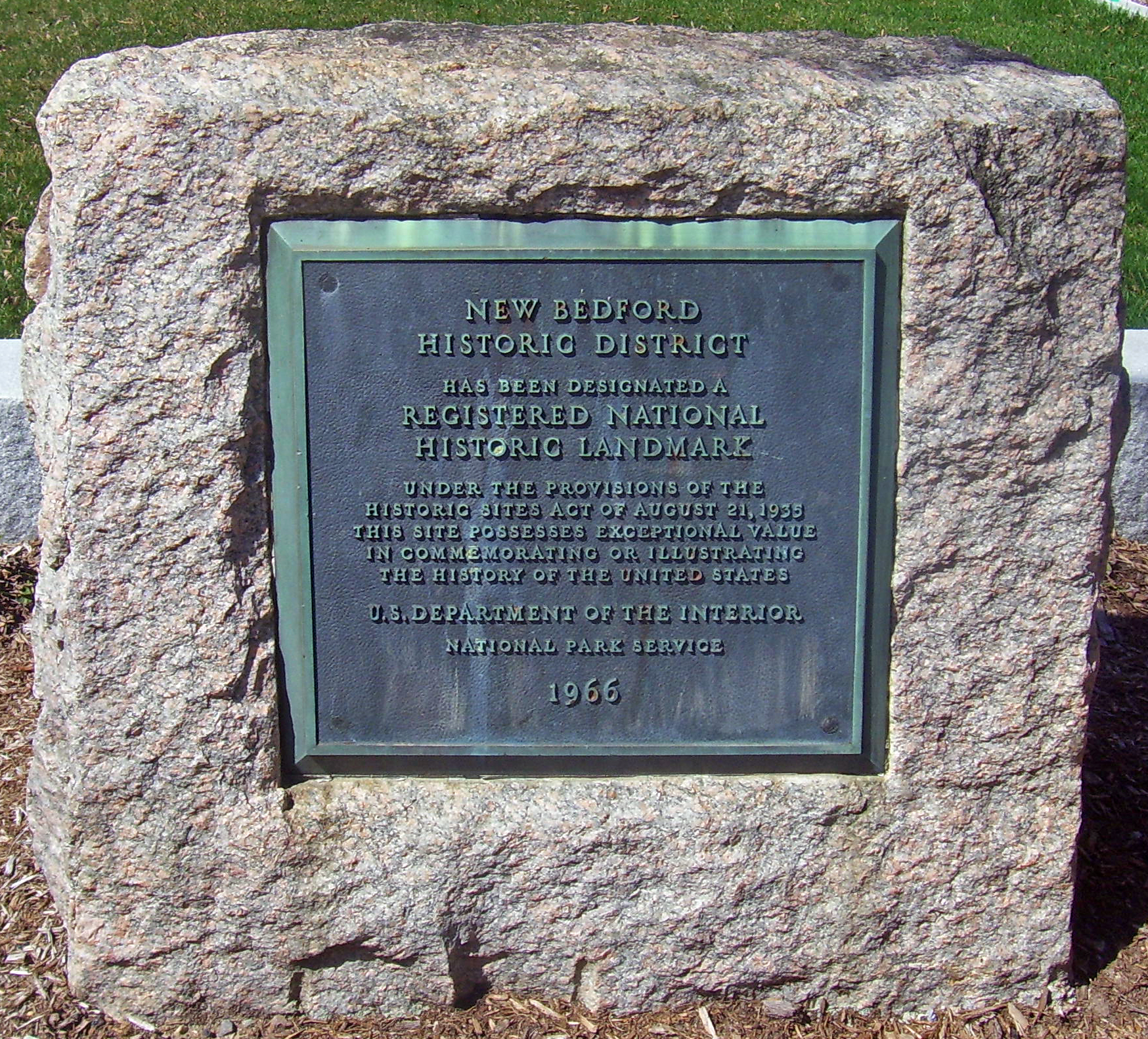 Plaque indicating official designation of New Bedford Historic District as a U.S. National Historic Landmark along William Street in New Bedford, MA